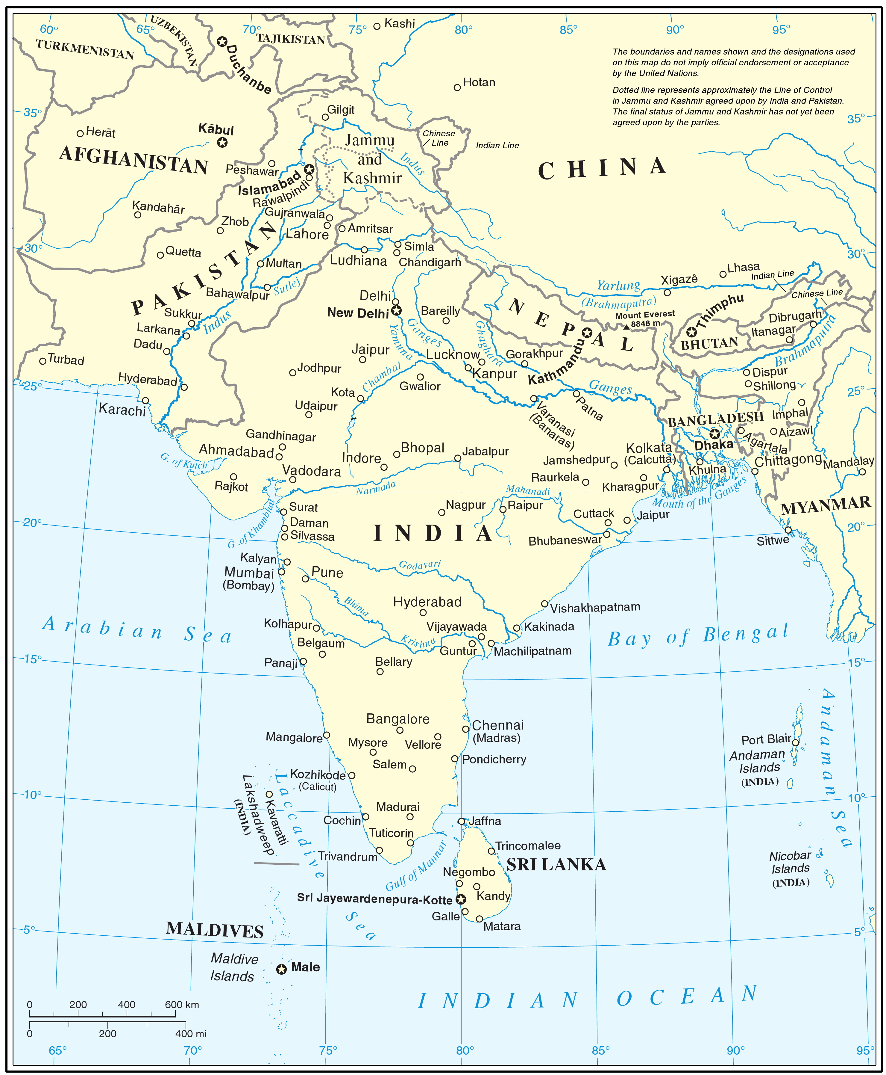 UN map of South Asia, cropped to remove UN map number.